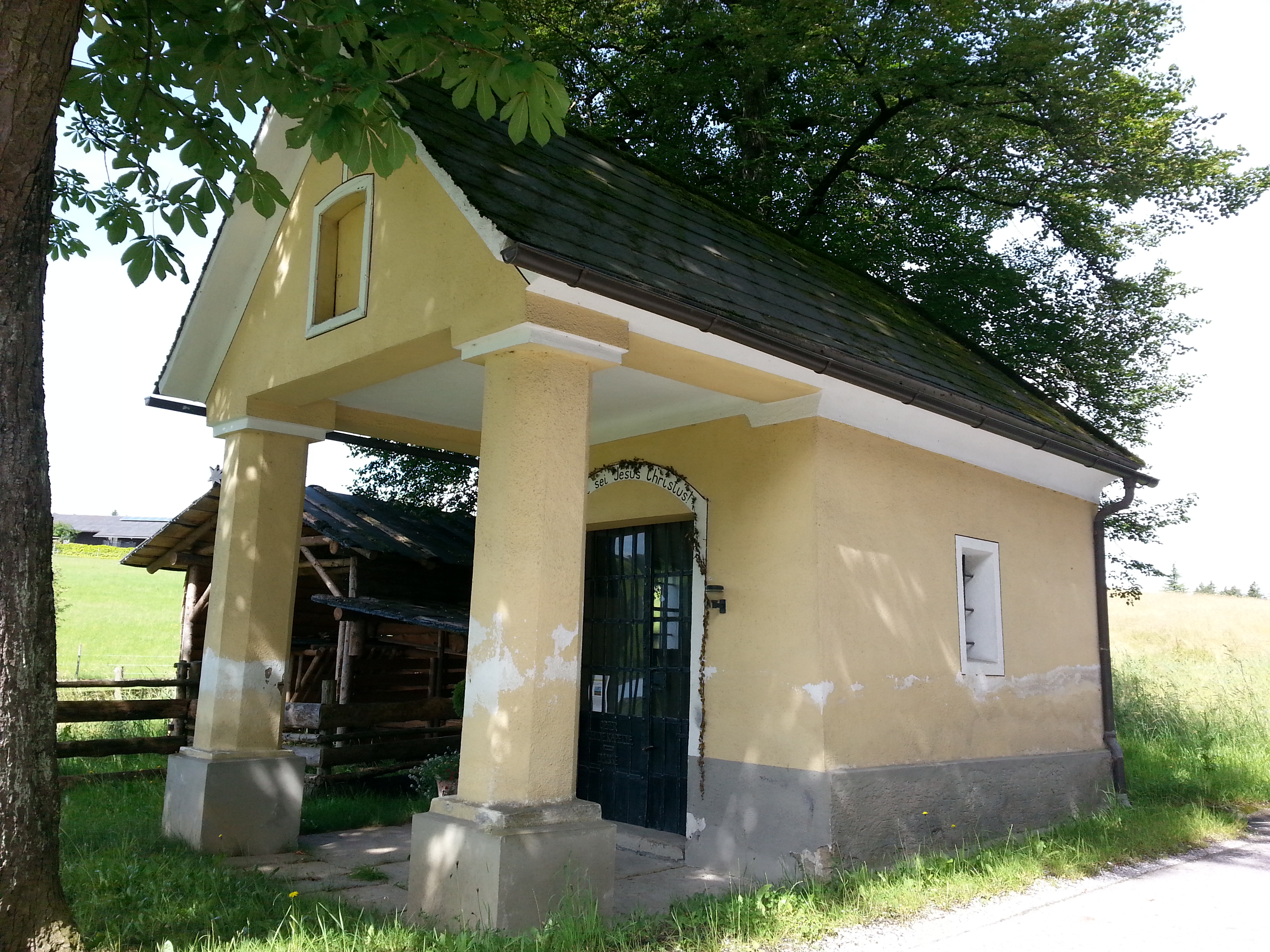 The Krones-Kapelle, a chapel in Stallhofen, Styria